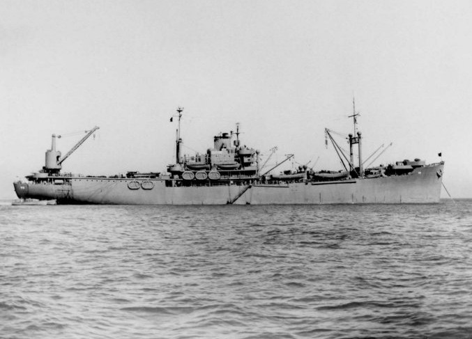 The U.S. Navy seaplane tender USS Pocomoke (AV-9) at anchor off San Francisco, California (USA), 6 May 1943.